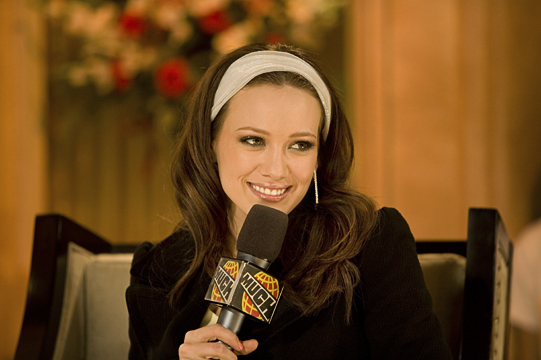 Taken at MuchMusic during the taping of Live@Much: Hilary Duff.